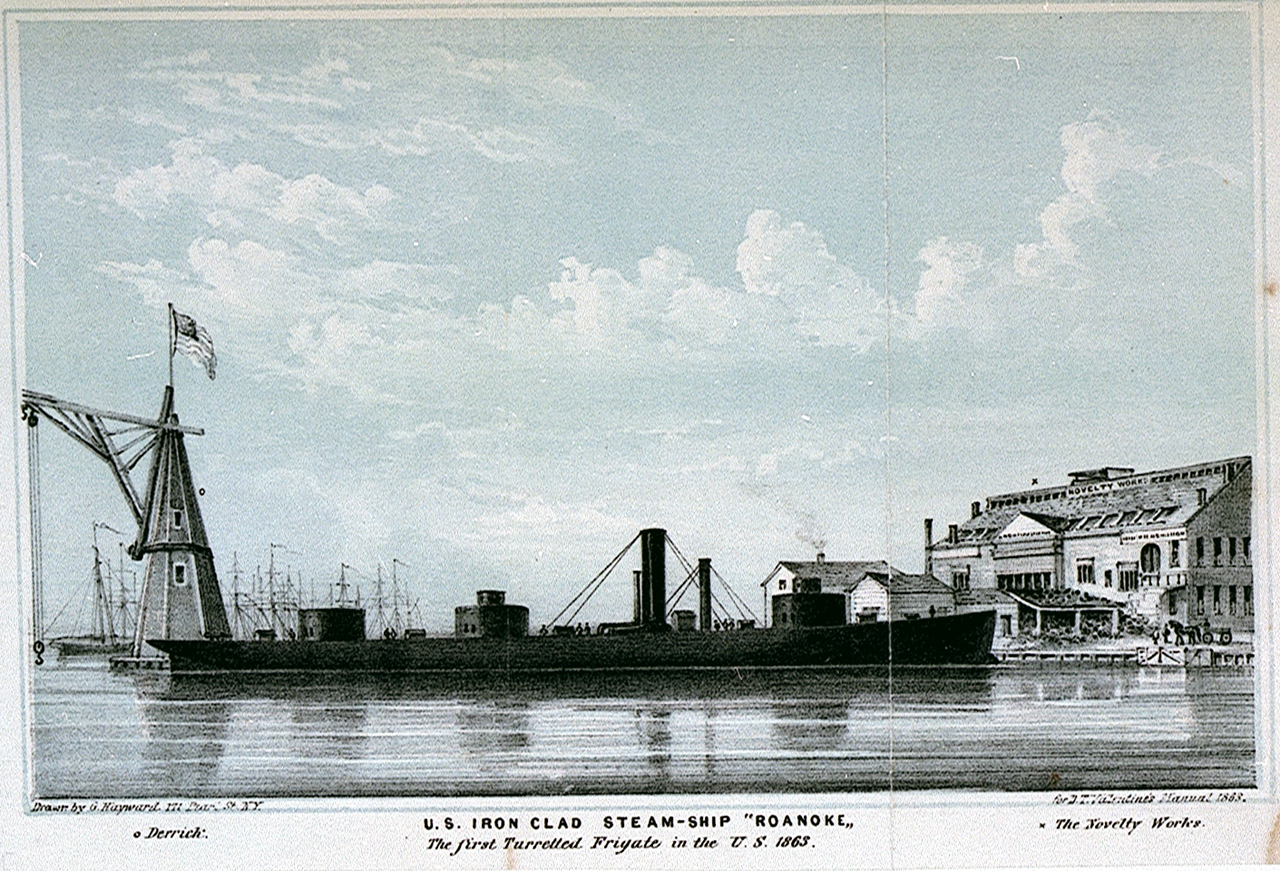 US Iron Clad steam-ship Roanoke The first Turretted Frigate in the US 1863 Print